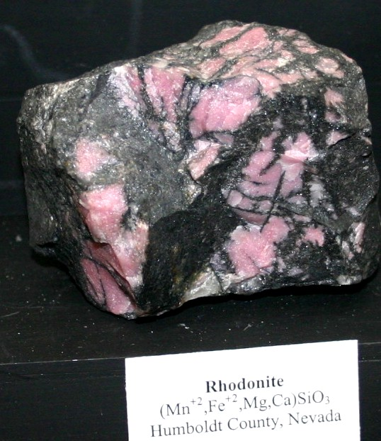 Source: Chris Ralph. This photo taken by Chris Ralph of [1], Photographer and author: photo taken by author.